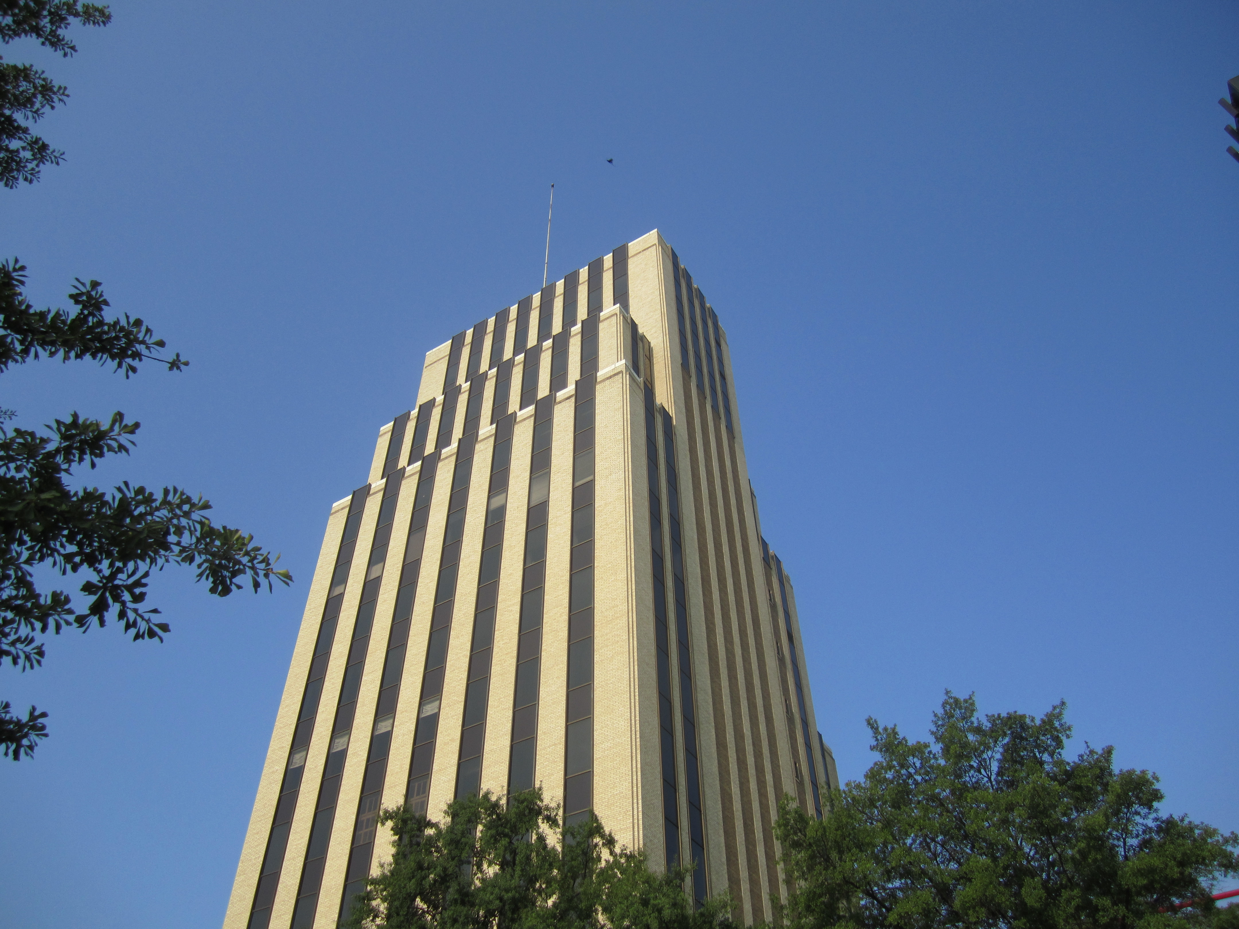 I took photo in Tyler, TX, with Canon camera.